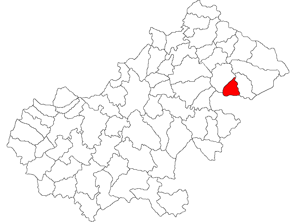 Locator map of Racșa Commune, Satu Mare County, Romania